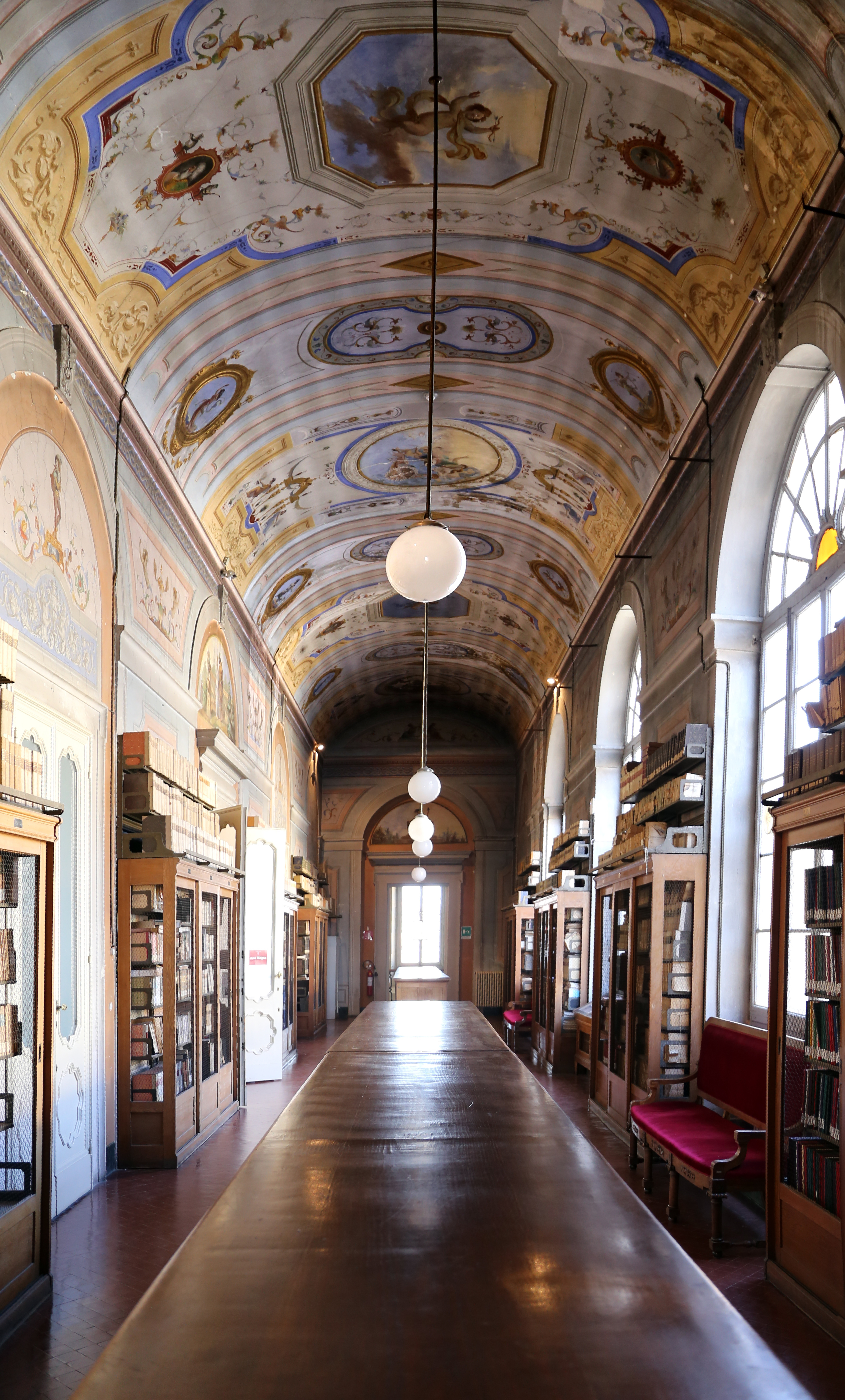 Palazzina Reale delle Cascine - Interior